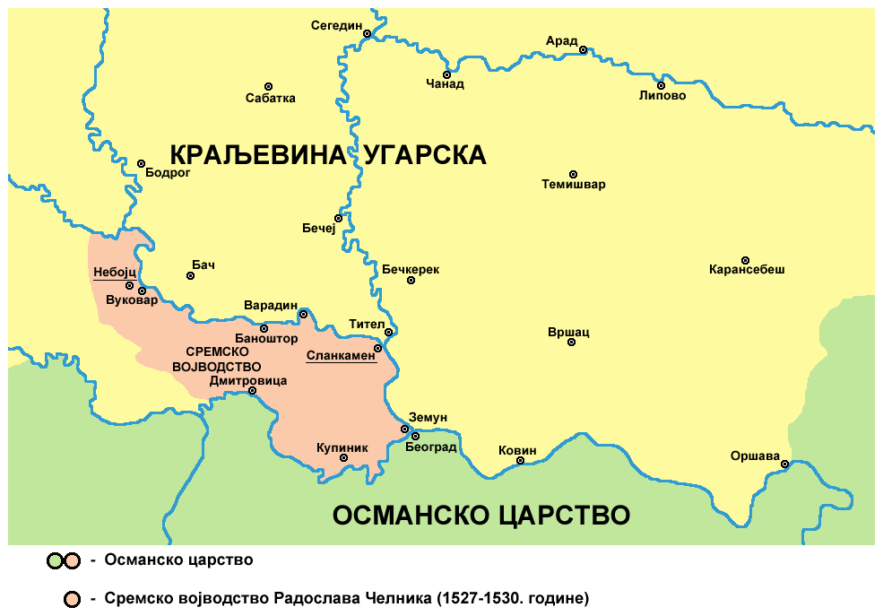 historic map - Duchy of Syrmia of Radoslav Čelnik (1527-1530) - Serbian language version